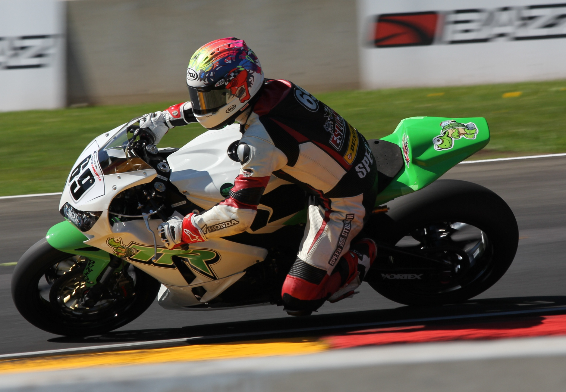 MotoAmerica AMA Superbike rider Daniel Eslick leaning left at Turn 6 at Road America.